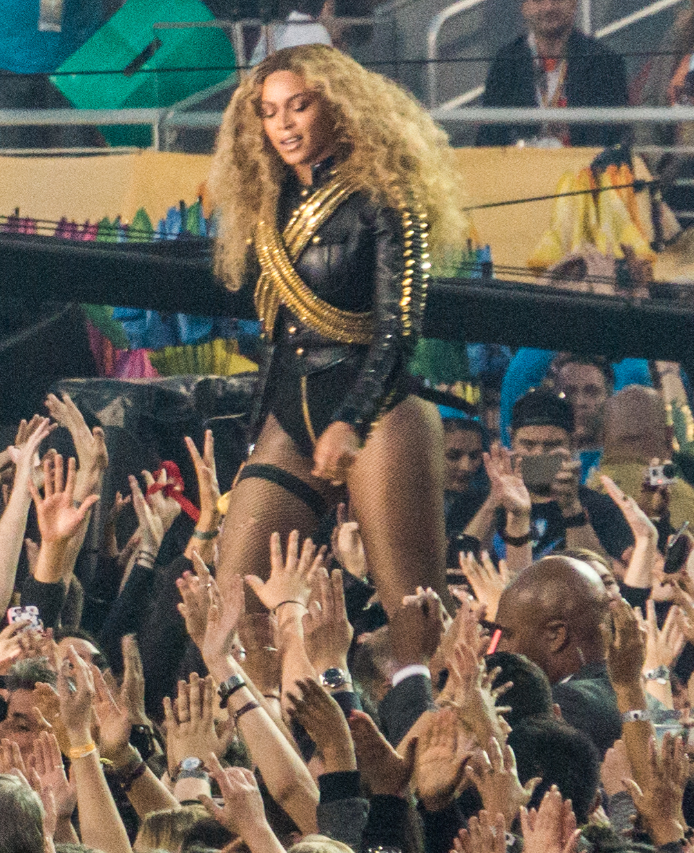 Beyoncé performs at the Super Bowl 50 halftime show, as a special guest for Coldplay, who headlined.